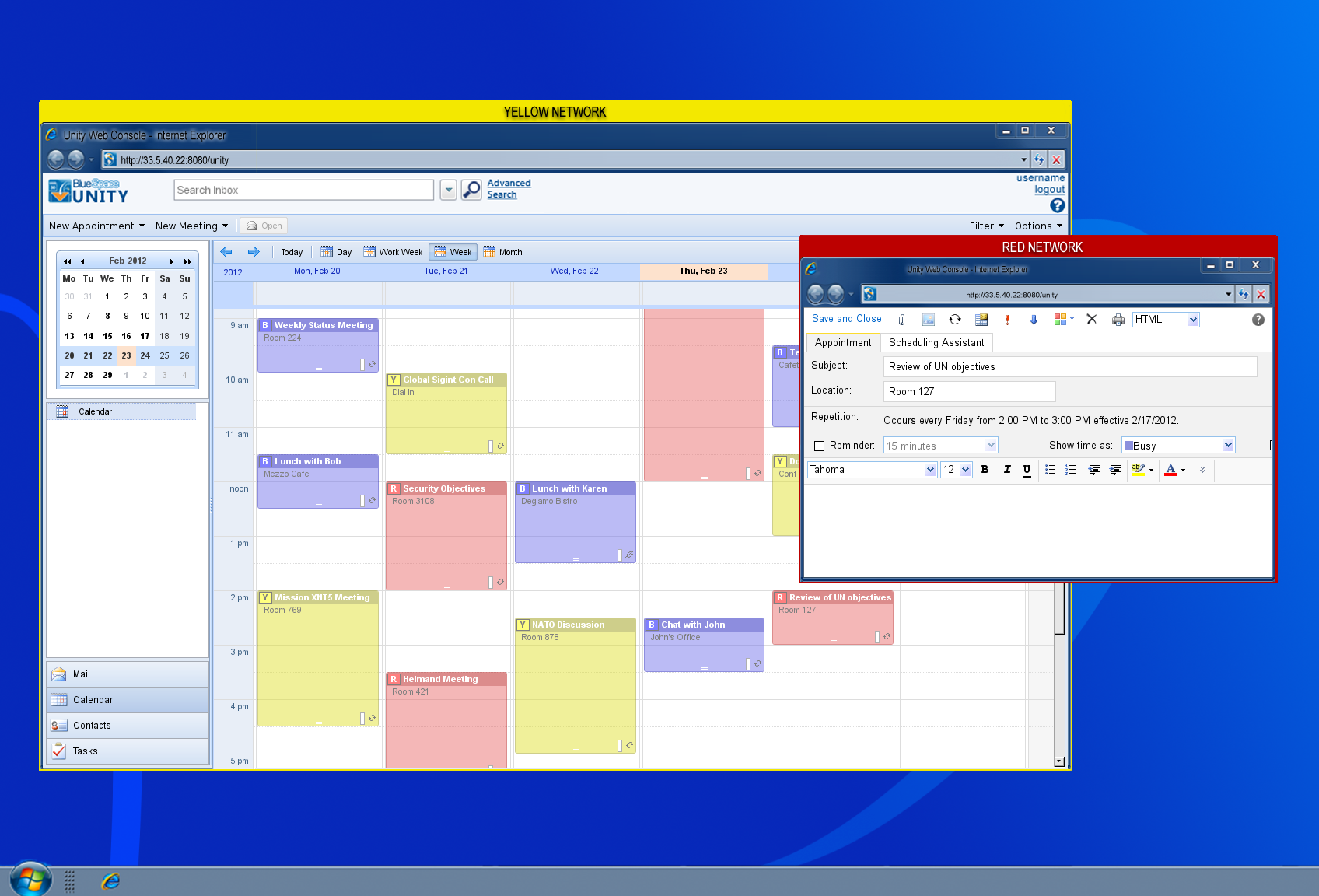 Unity Calendar shows multi-level calendar that spans multiple security networks